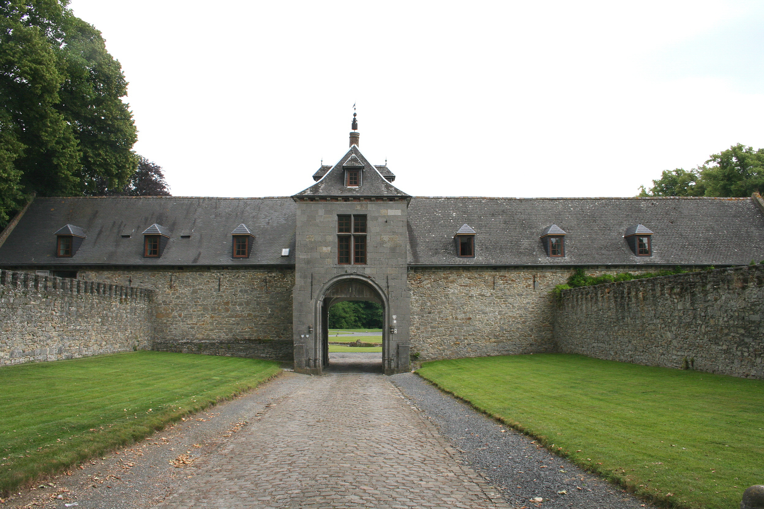 Ecaussinnes-d’Enghien (Belgium), the « la Follie » castle (XVIth century).